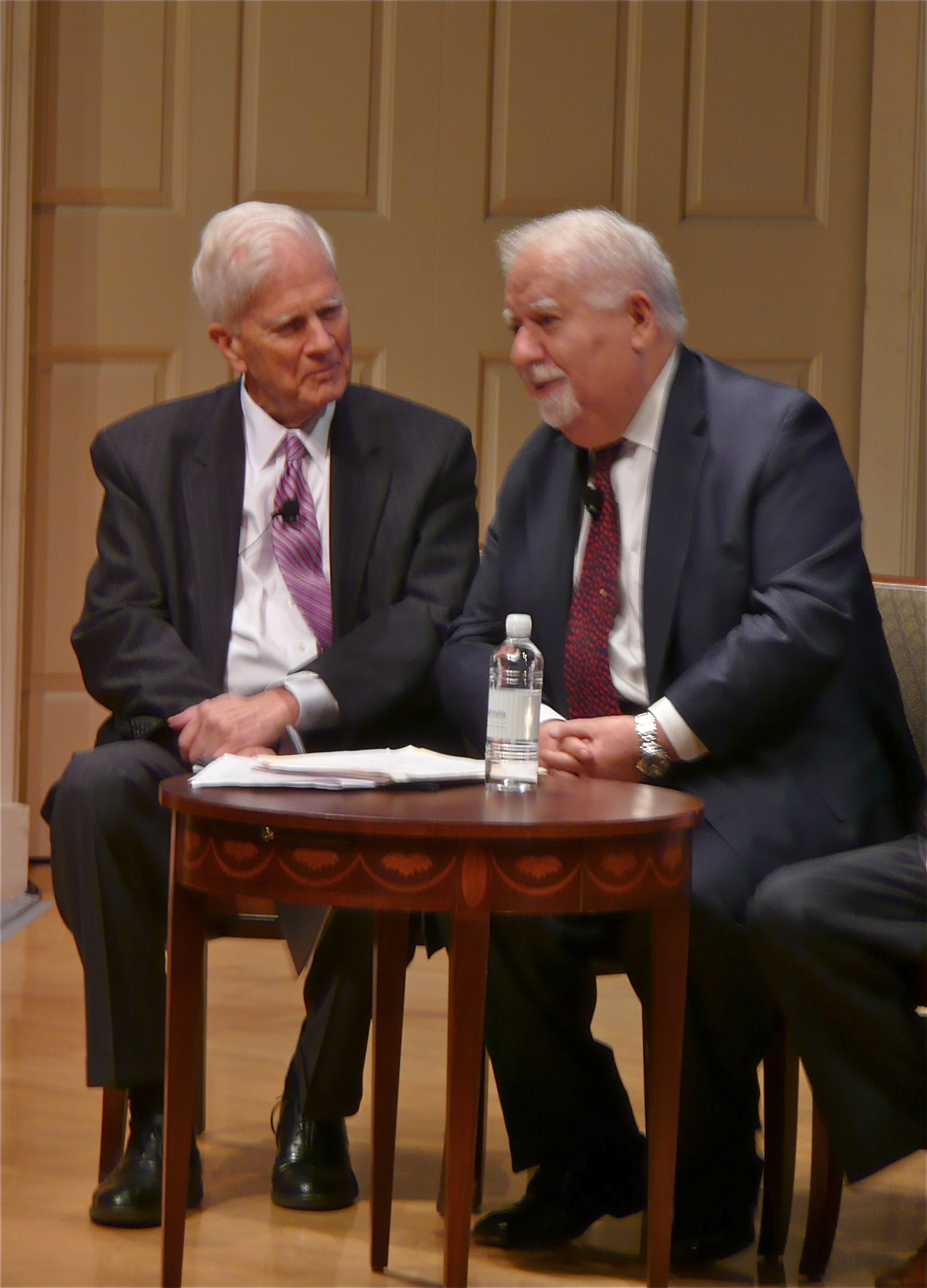 "Creating a Dynamic, Knowledge-Based Democracy. The Passage of the Morrill Act and the Creation of the National Academy of Sciences and the Carnegie Libraries." Morrill Act 150th Anniversary Celebration, June 23, 2012, Library of Congress.